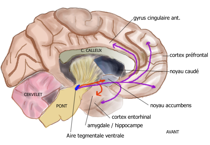 Dopaminergic pathways